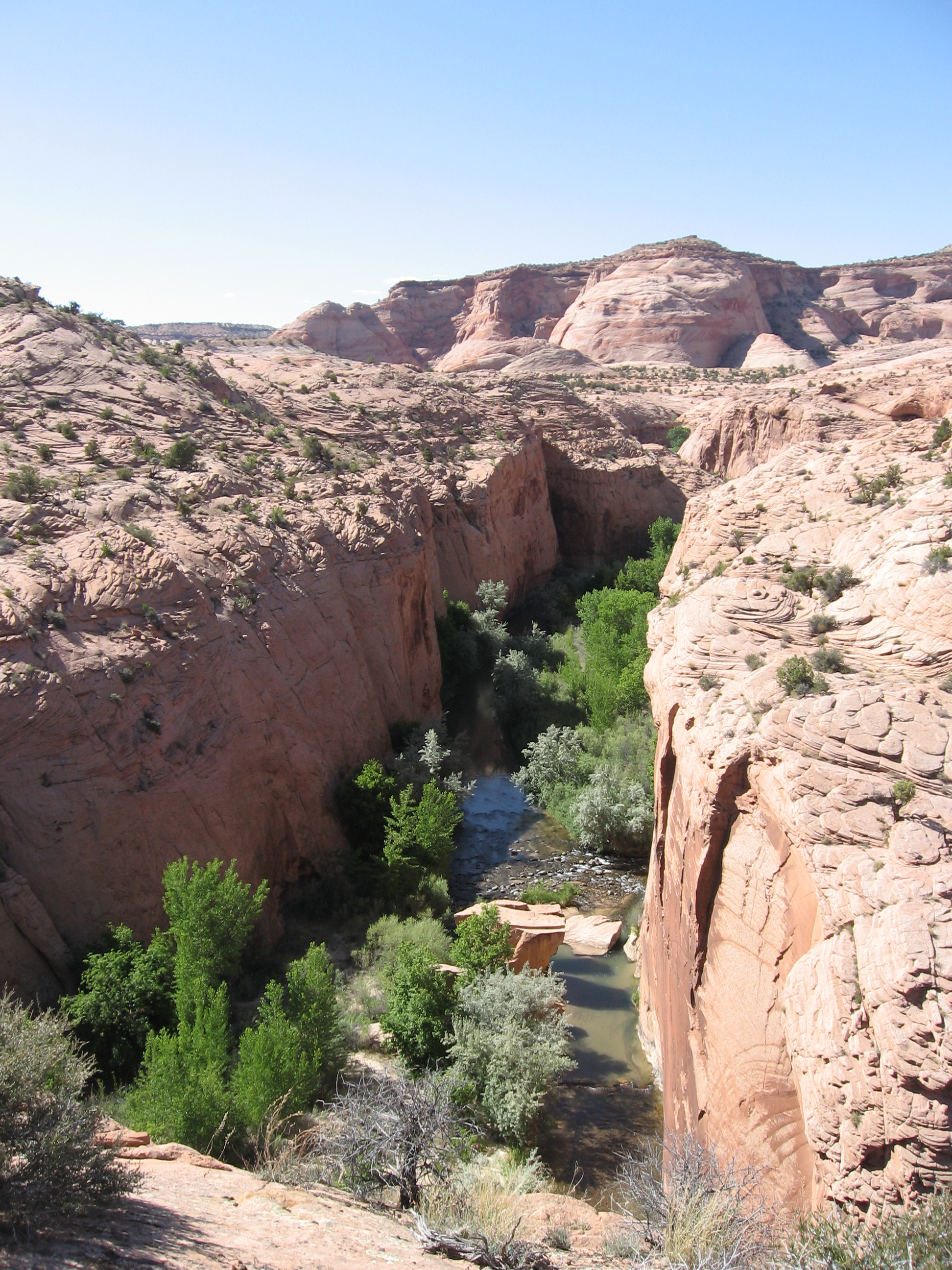 Inner gorge of the Escalanter River approximately two miles downstream from its confluence with Boulder Creek